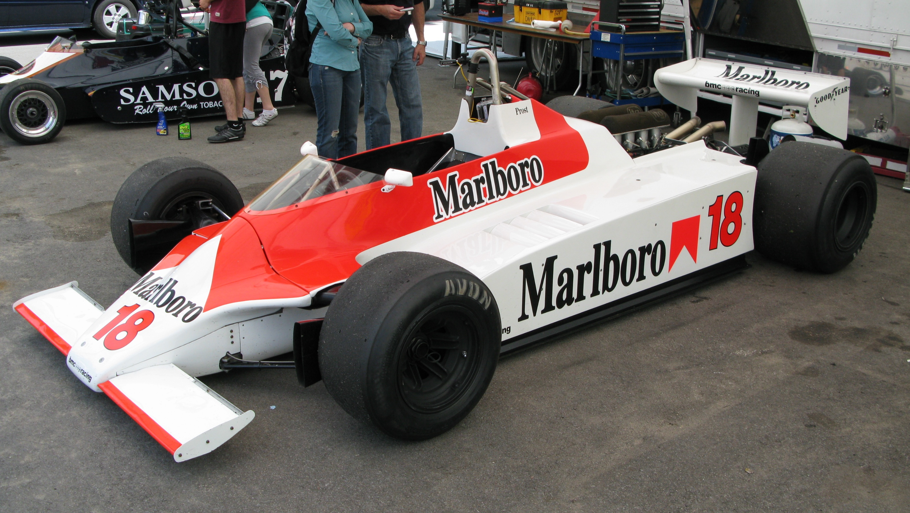 The unique McLaren M30 Formula One car. Pictured in the paddock during the Sommet des Légends race meeting, Circuit Mont-Trembant, Quebec, Canada. July 2009.